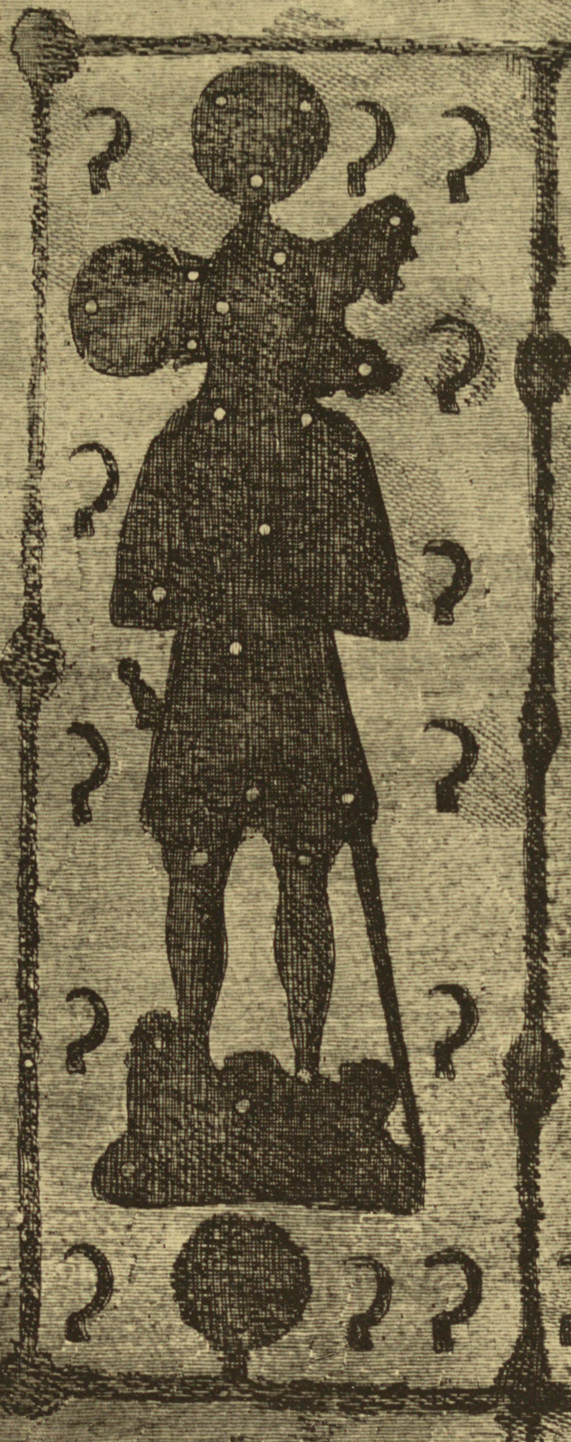 Monument of Sir Walter Hungerford in the North nave of Salisbury Cathedral, engraved by Jacob Schnebbelie (1760-1792)